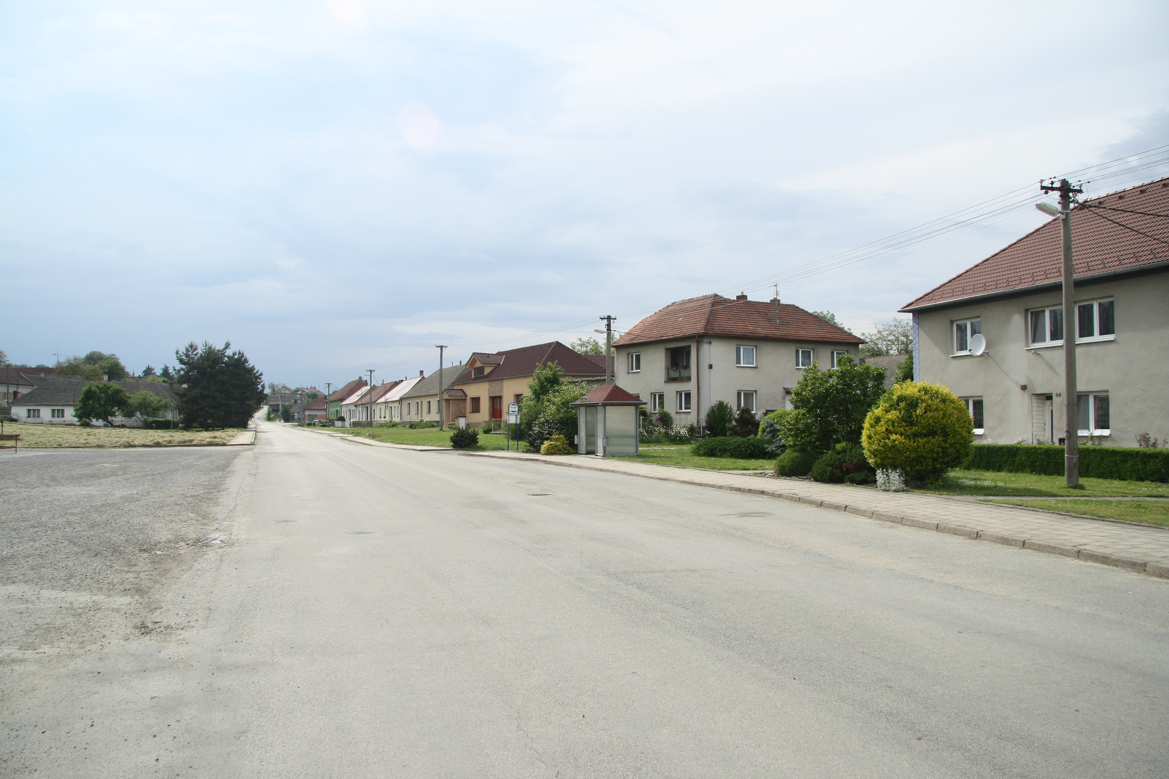 Main street in Pyšel, Třebíč District.